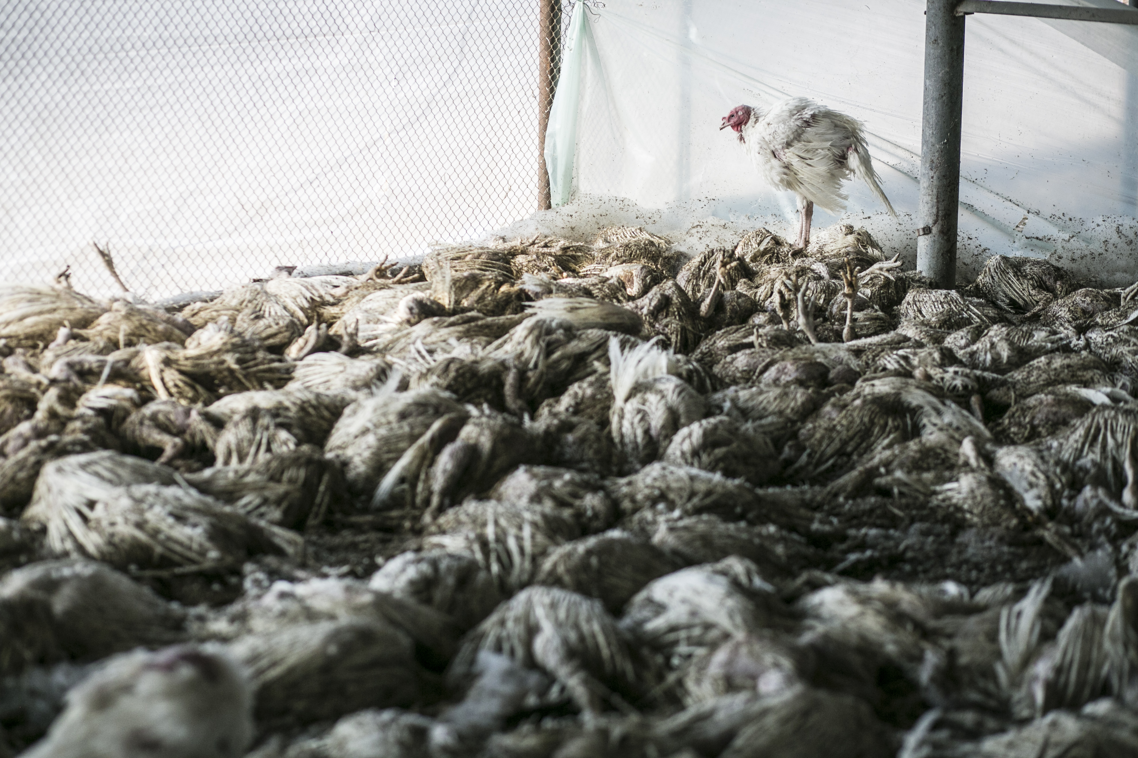 Avian influenza, poultry depopulation, extermination of turkeys by foam, Israel